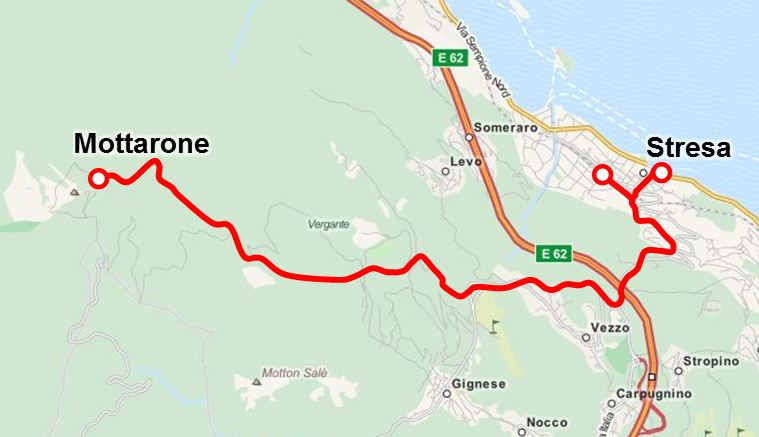 Stresa-Mottarone railway map